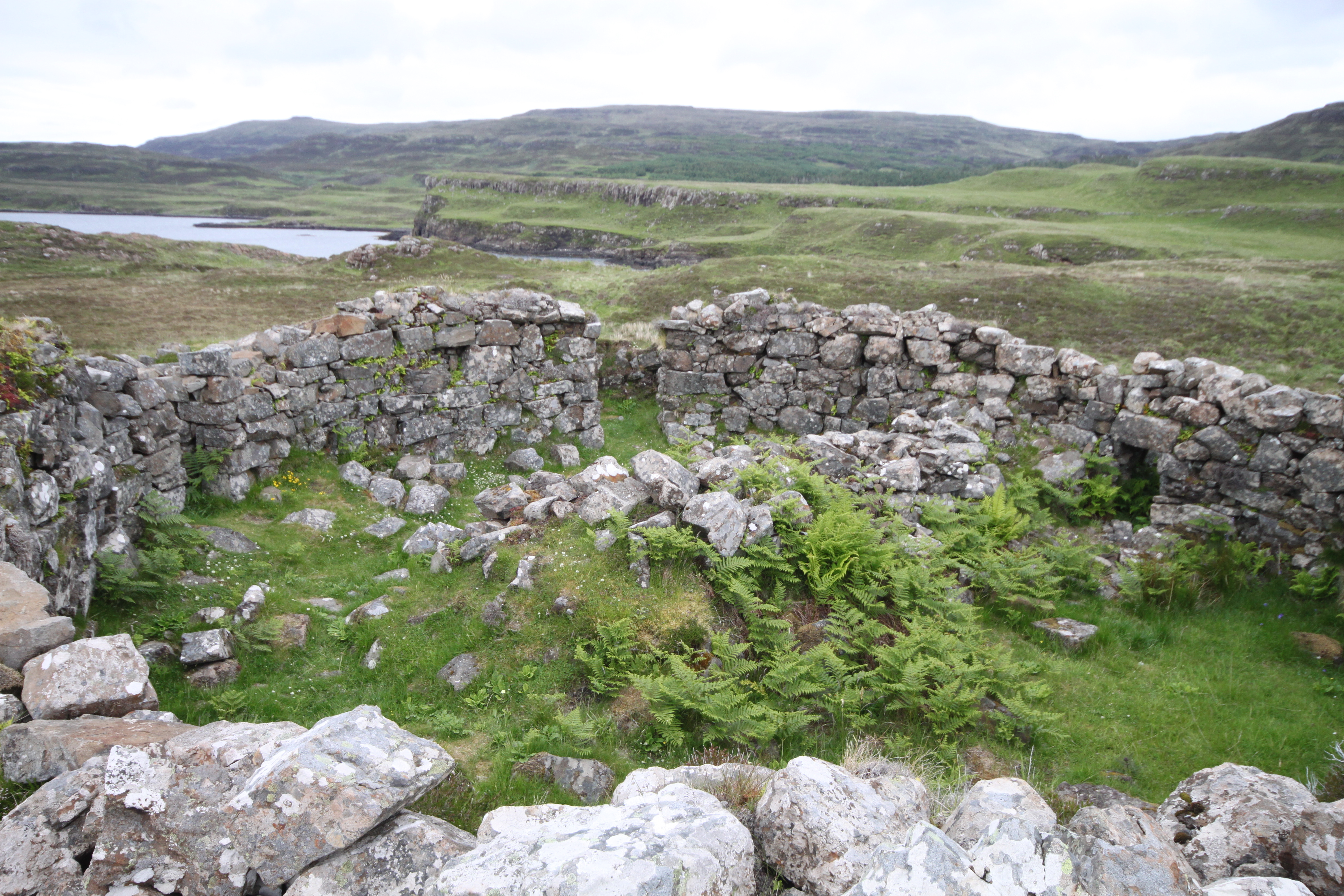 View from the gallery in the Broch